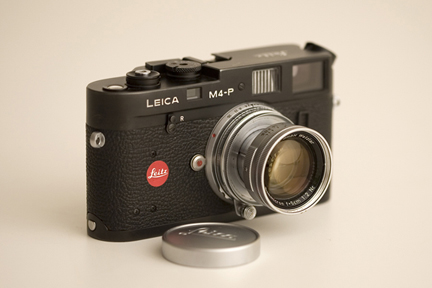 My new camera- M4-P with collapsible 50/2 Summicron. Hopefully I'll have some photos from the posted soon.(yes- I blacked out the serial number on the lens)Update - I sold this pair to a documentary film maker here in Seattle, who took it on assignment to Nigeria. I'll add a link to some of his photos shortly.